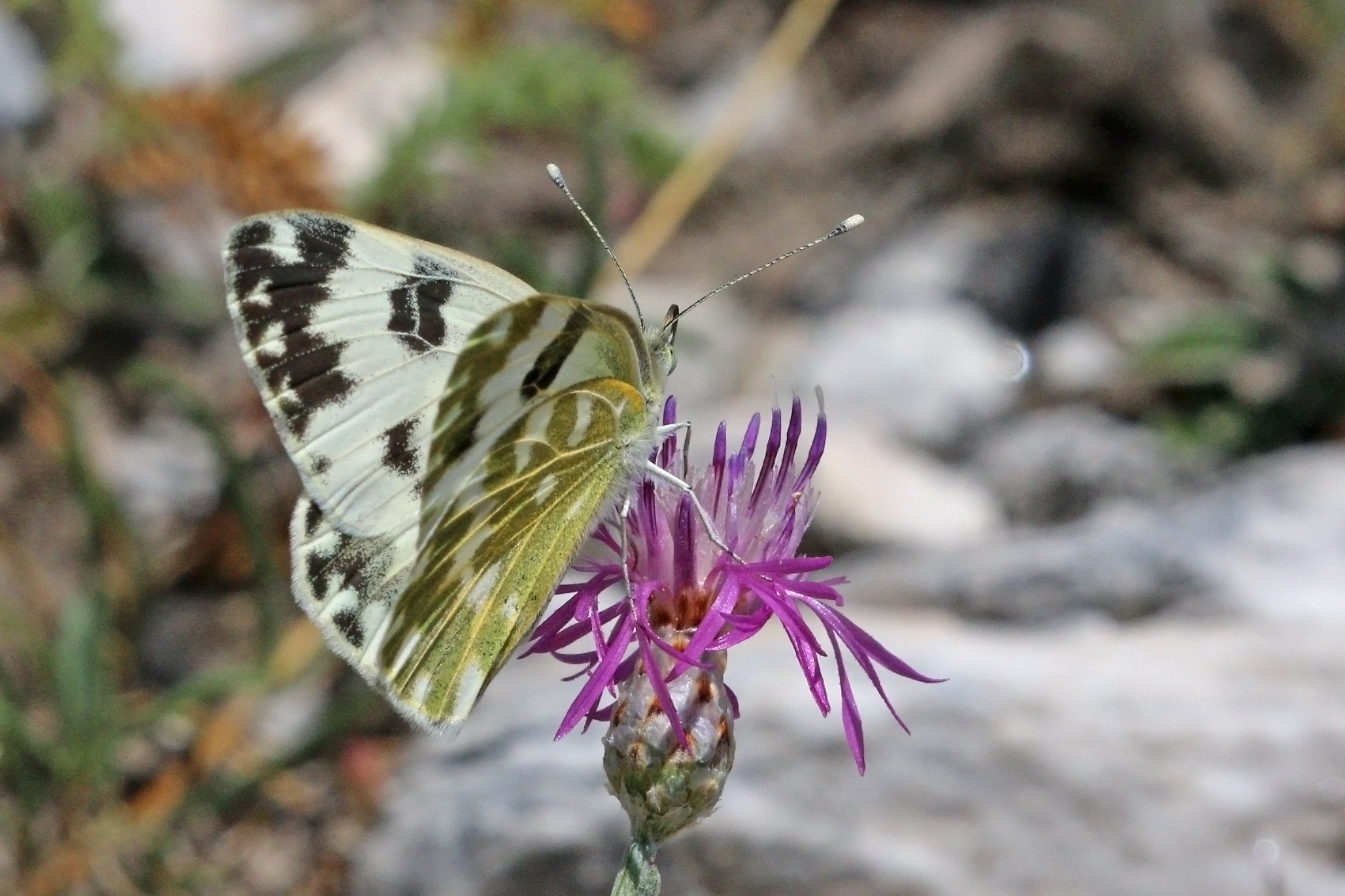 Eastern bath white (Pontia edusa) female, Macedonia